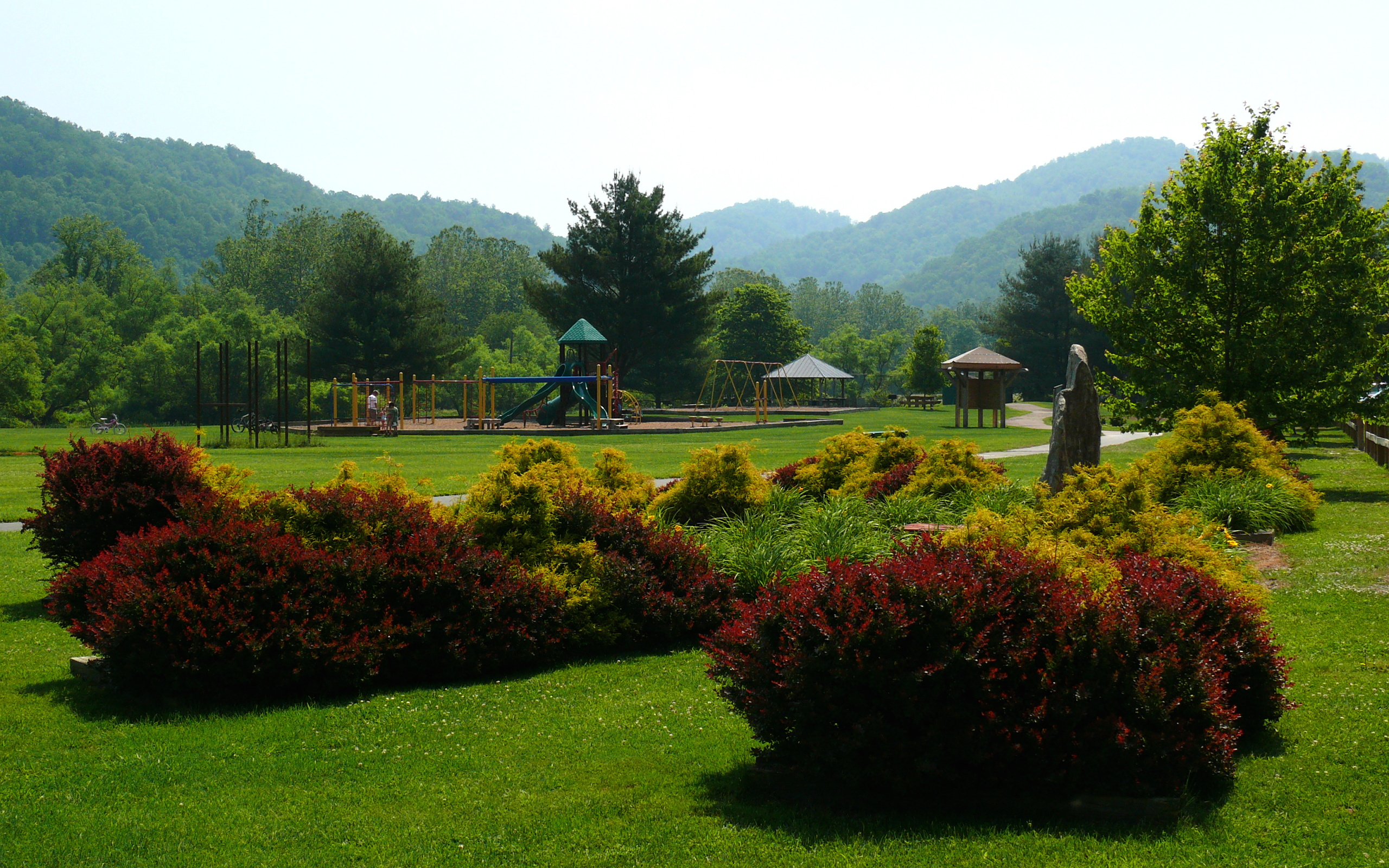 The Valle Crucis Community Park. Photo taken with a Panasonic Lumix DMC-FZ50 in Watauga County, NC, USA.